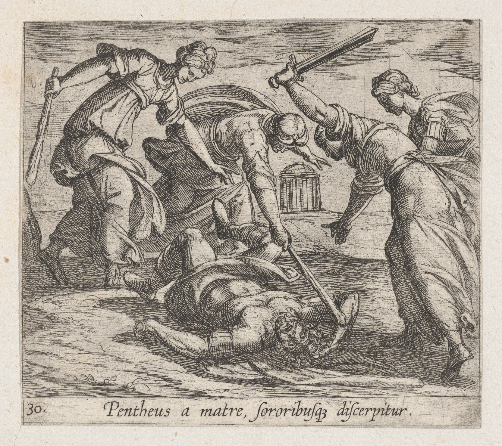 Print; Prints